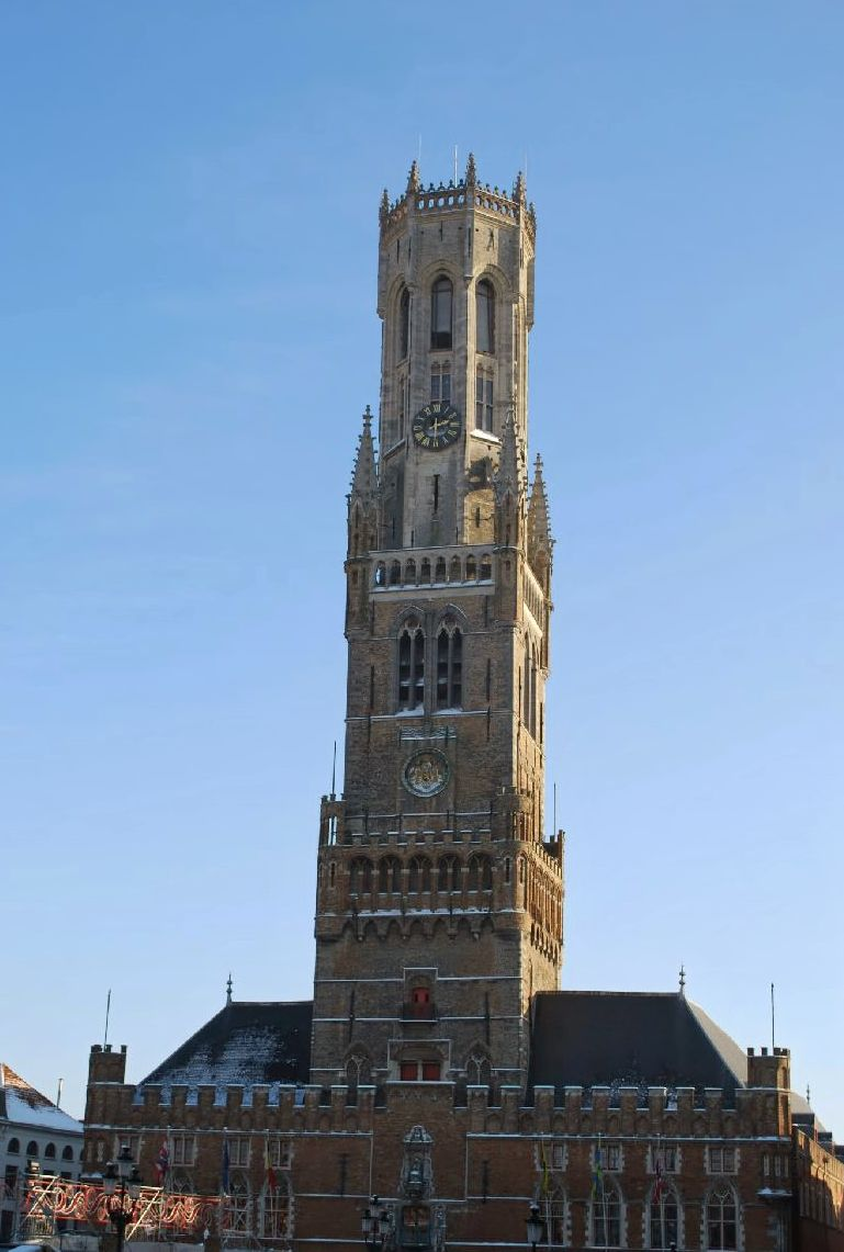 The Belfry of Bruges from another angle.